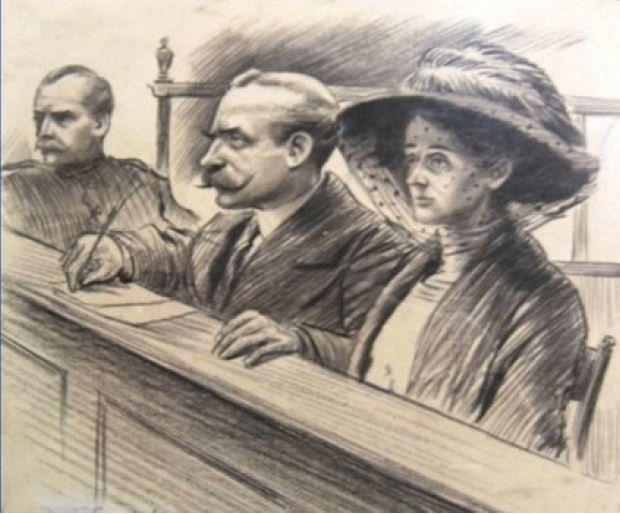 Drawing by William Hartley of Frederick Seddon and his wife in the dock at the Old Bailey (1912)